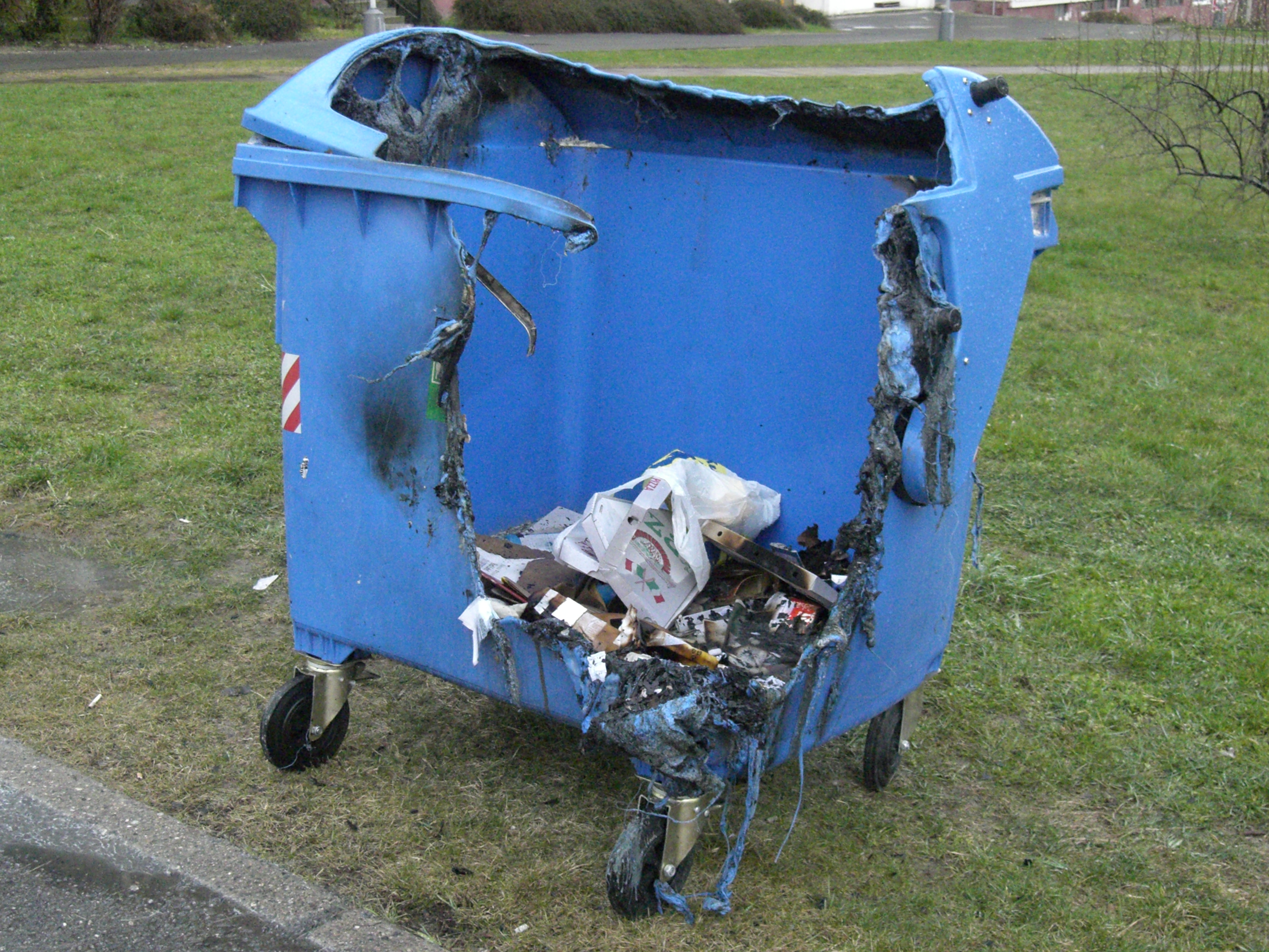 Container after pyromania attack, Jižní Město, Prague, Czech Republic.